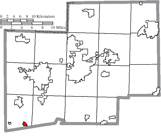 Map of the municipal and township boundaries of Stark County, Ohio, United States, as of the 2000 census, with the location of the village of Beach City highlighted. Township borders are shown only in unincorporated areas in order to differentiate incorporated and unincorporated areas more clearly.